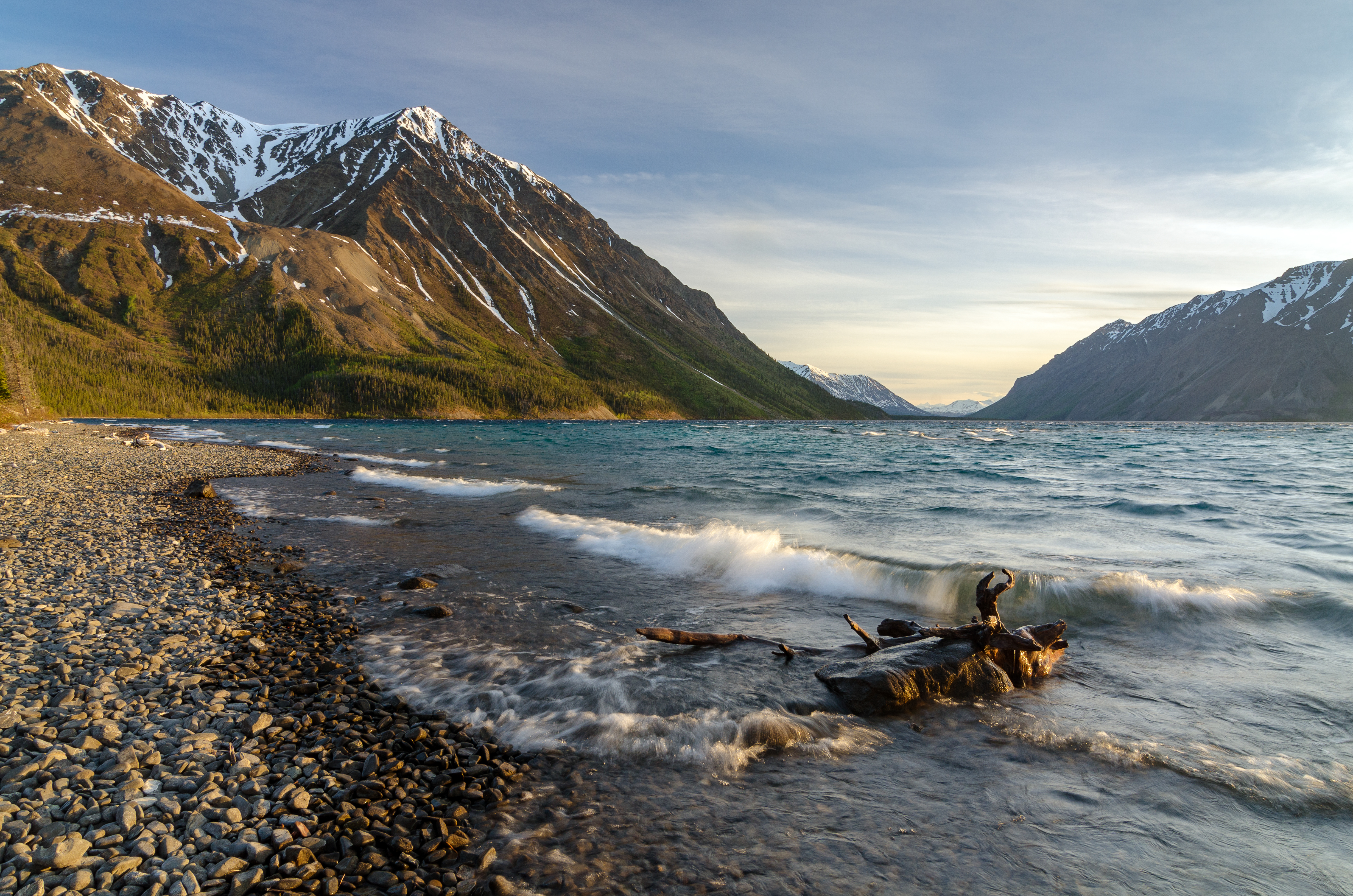 Evening on Kathleen Lake, Kluane National Park and Reserve, Yukon, Canada, May 2019 This photo was taken in a protected area in Canada, Wikidata item Kluane National Park and Reserve (Q738582)